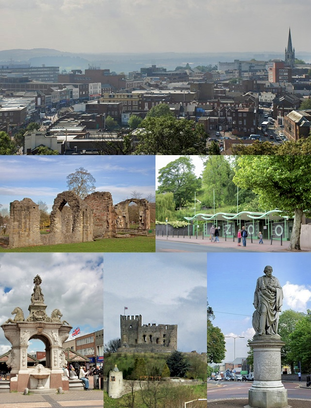 Montage of Dudley, England, using a combination of images taken by myself and images taken from Wikimedia Commons. Images depict the town skyline, Dudley Priory, the entrance to Dudley Zoo, the Market Place, Dudley Castle, and the statue of the Earl of Dudley.